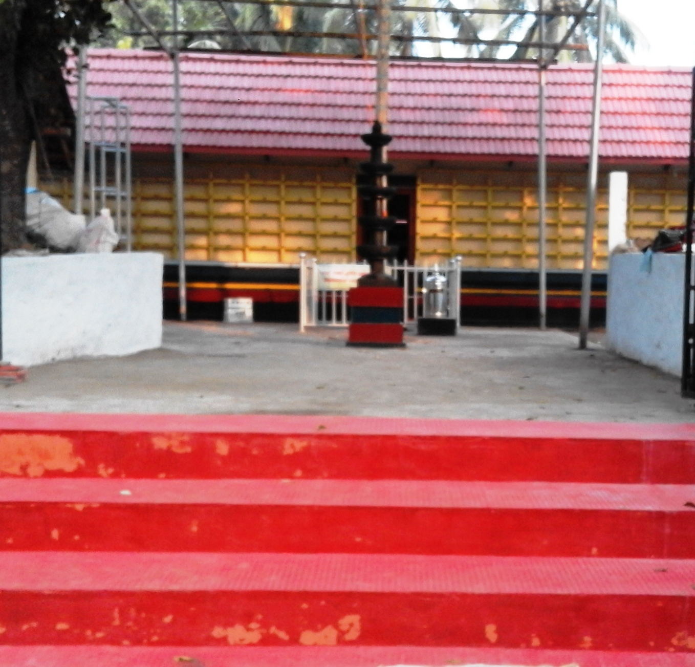 Balussery, Kozhikode District, Kerala Province, India.